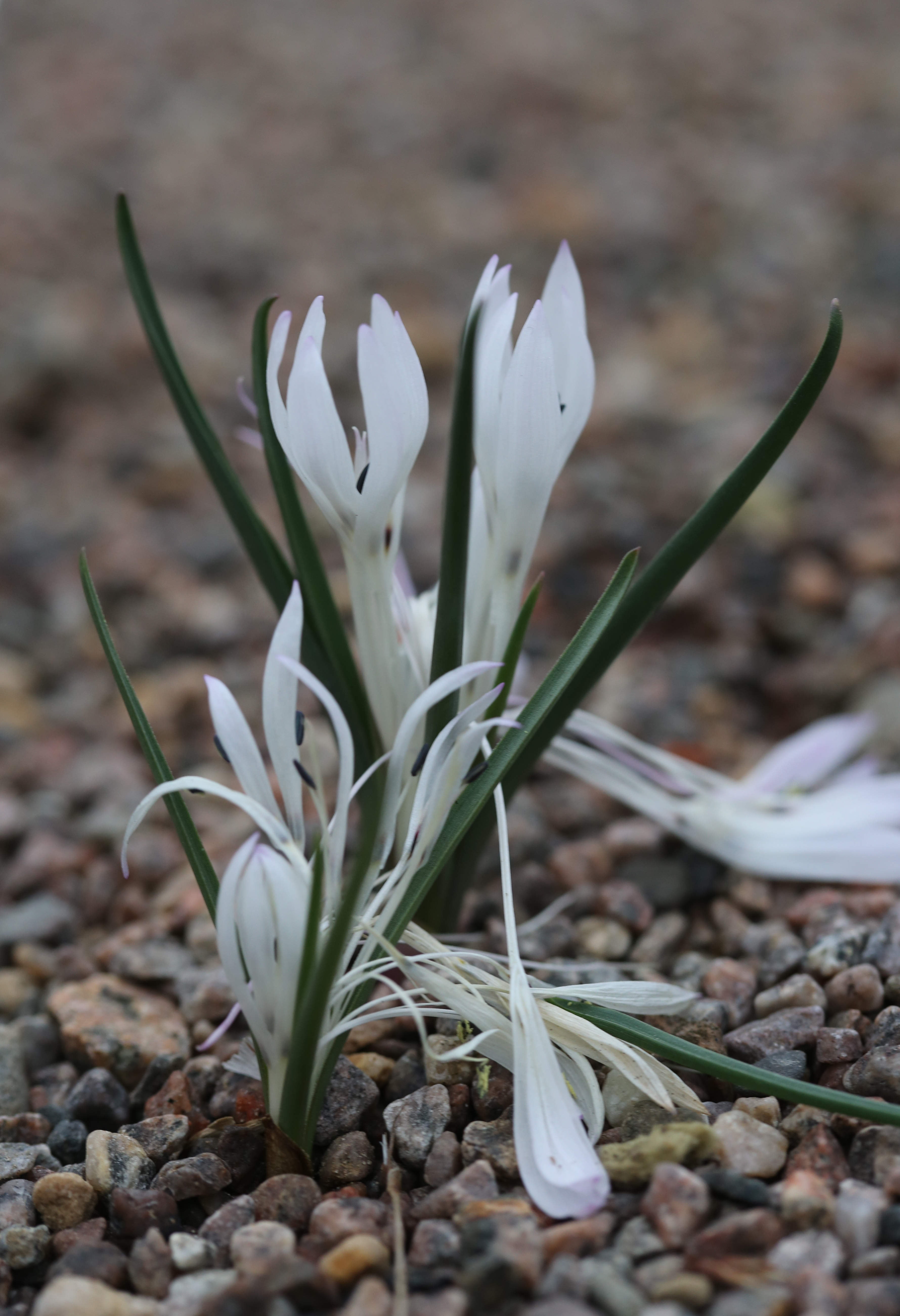 Colchicum atticum at Gothenburg botanical garden in 2015. Plant id: 1985-0248 p W; Archibald, J&JA 5999